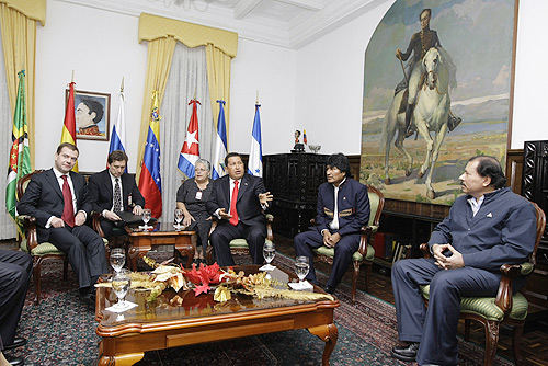 CARACAS. With the leaders of the Bolivarian Alternative for Latin America.